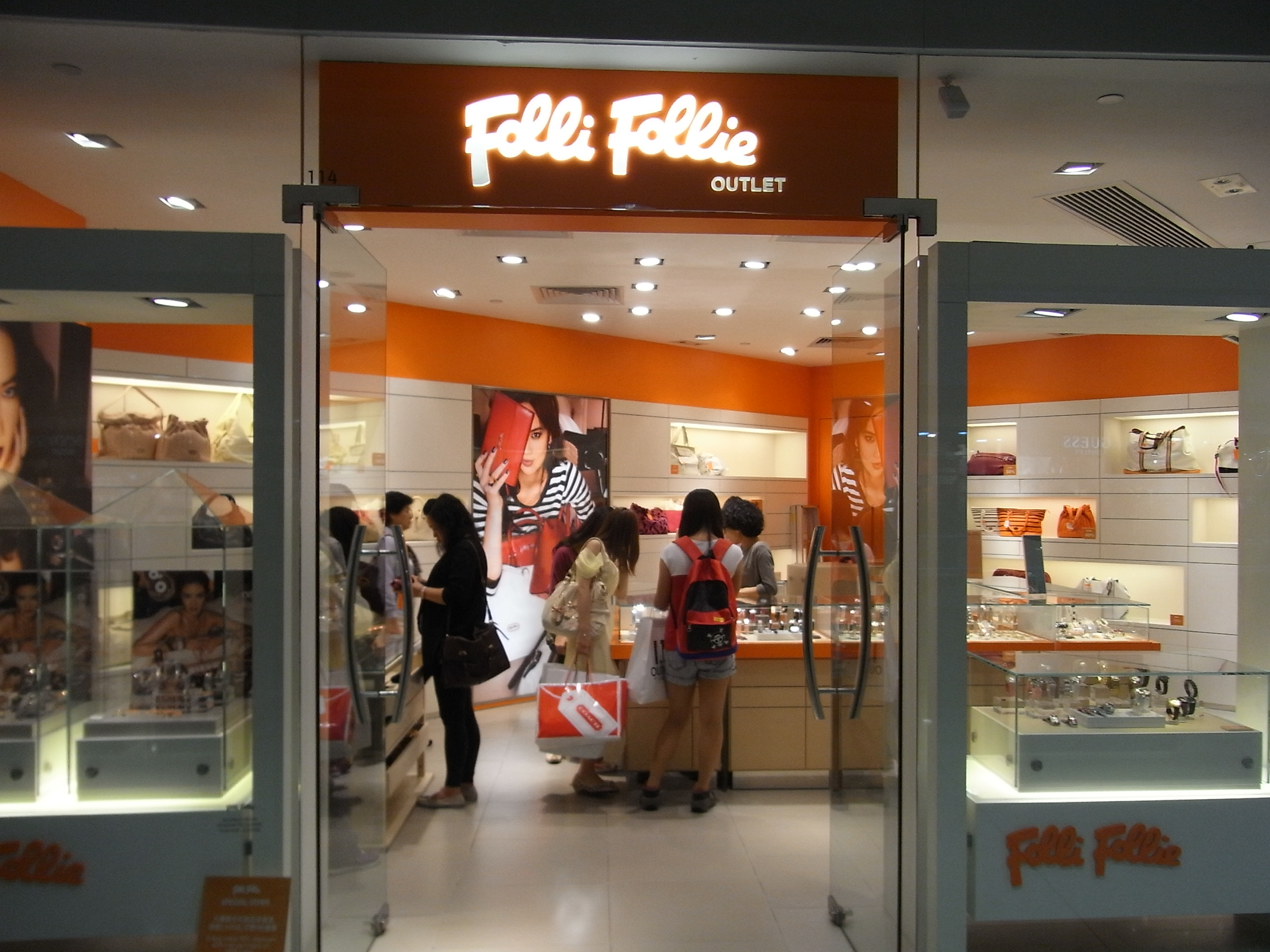 新界大嶼山東涌達東路20號東薈城, CityGate, Tung Chung, Islands District, Hong Kong